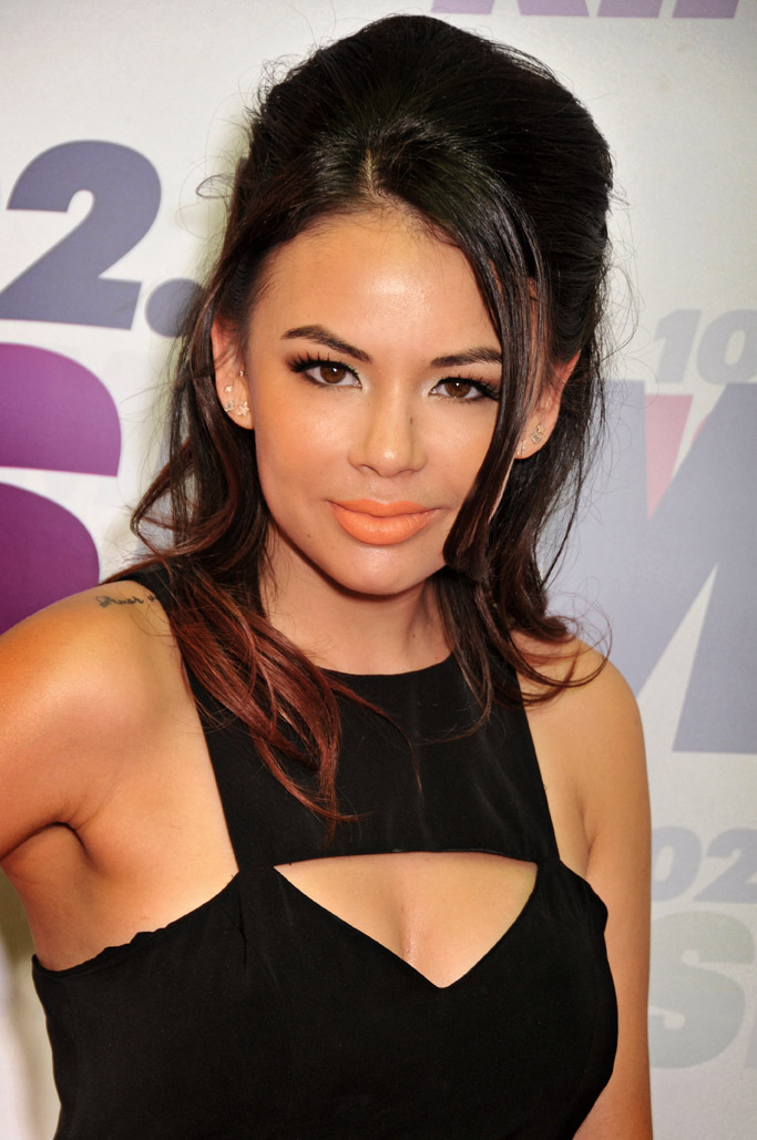 Janel Parrish, Carson, California on May 11, 2013 - Photo by Glenn Francis of